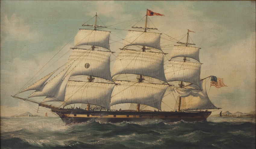 Built in 1843 by William H. Webb, New York for the transatlantic trade, the "Montezuma" was wrecked off Jones Beach, Long Island in 1854.